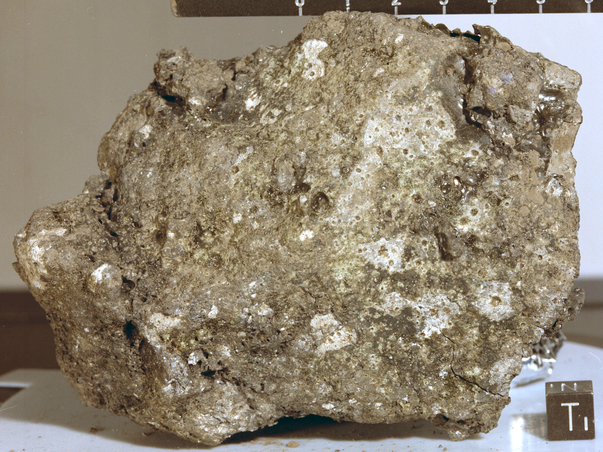 Breccia, Apollo 16 lunar sample 61195, collected at Flag, or Station 1 of the mission, on the Moon. Small cube is 1 cm on a side. Original description: "coherent, medium grey breccia with a glassy matrix and abundant clasts; zap pits are surrounded with wide spall zones".